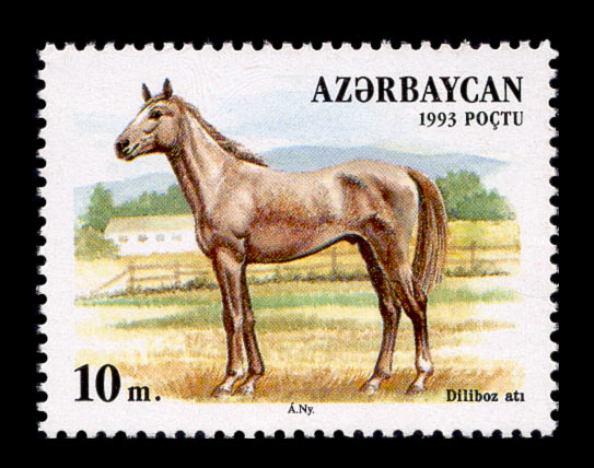 Stamp of Azerbaijan